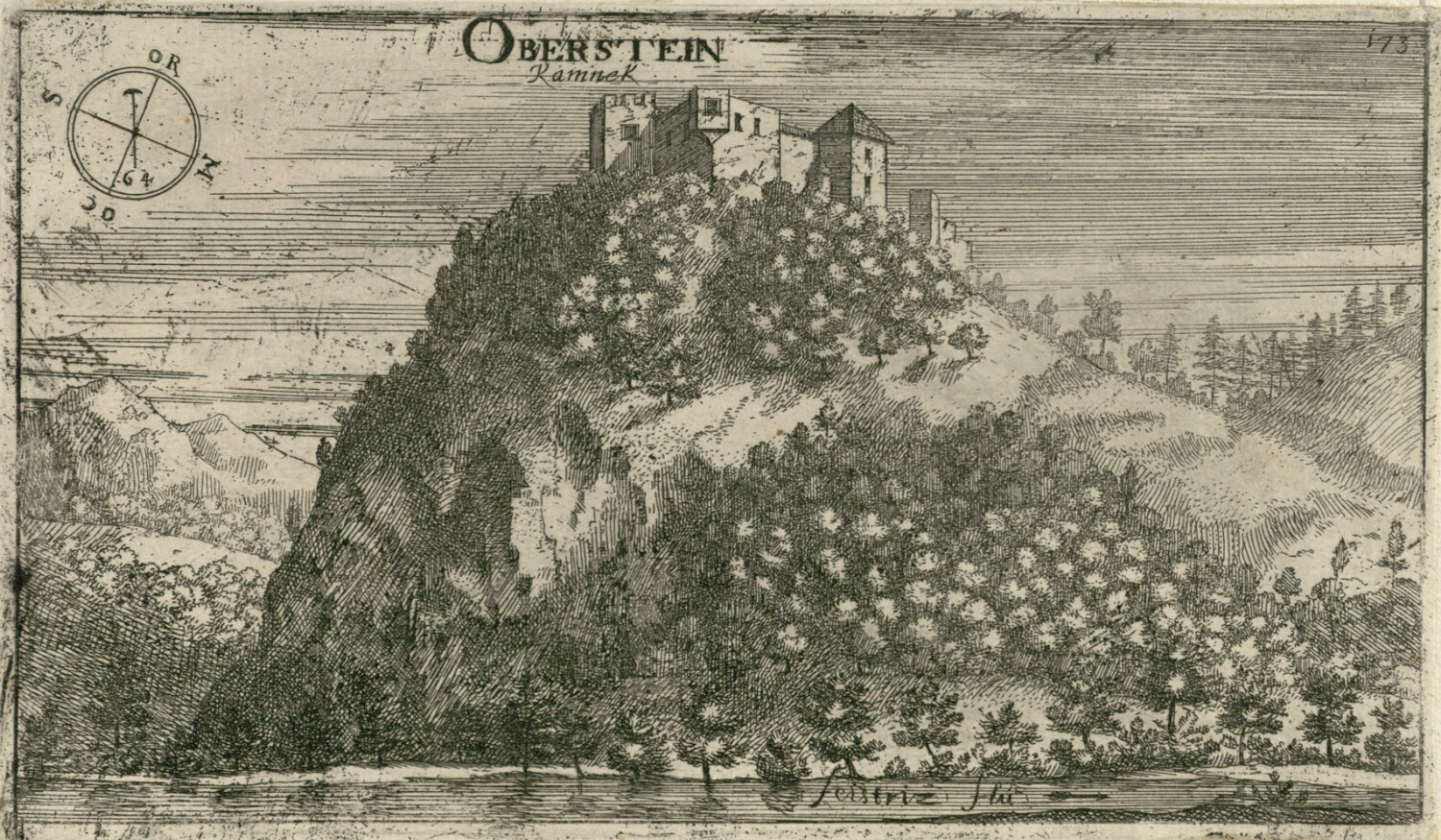 Kamnik Upper Castle